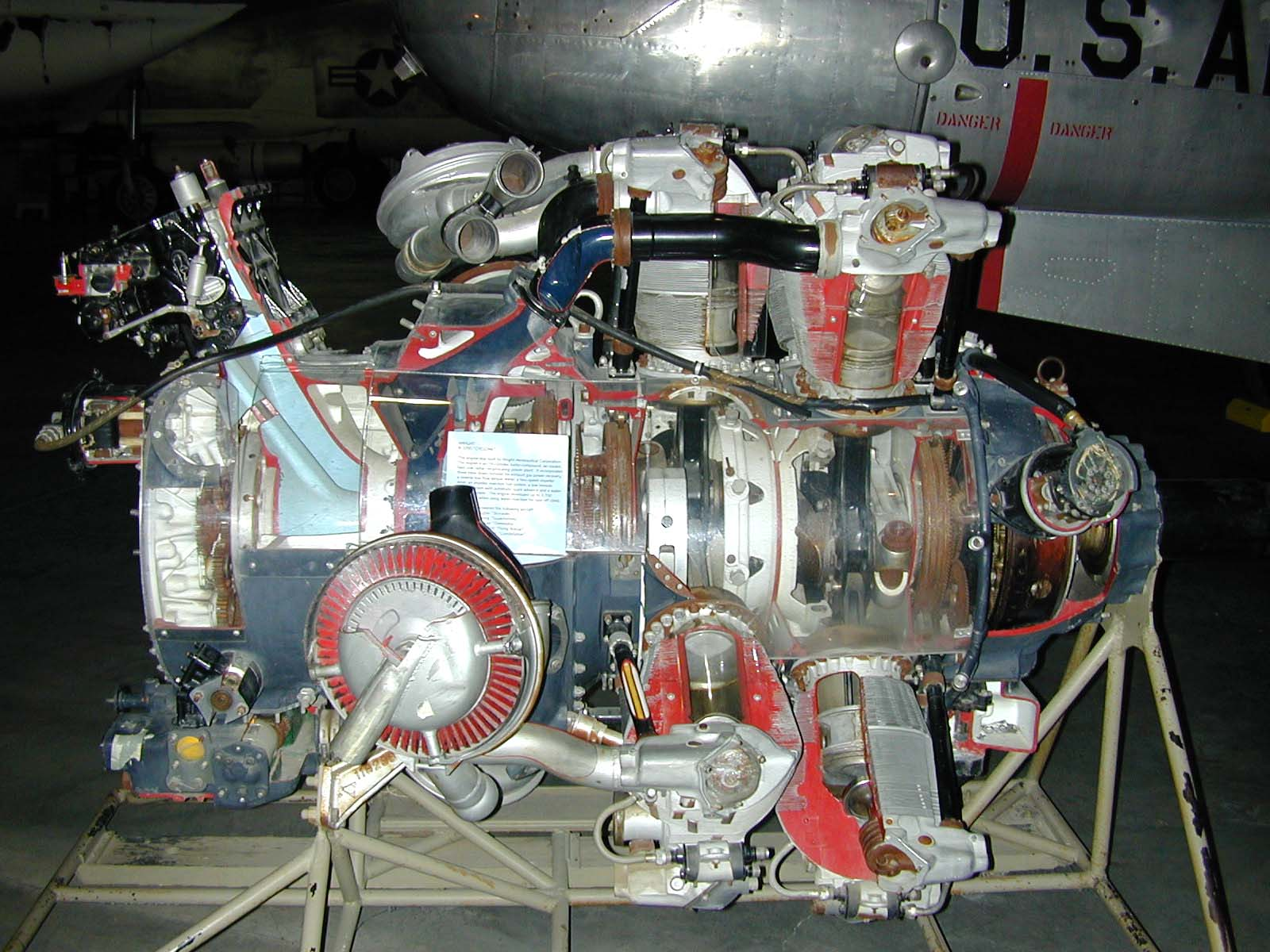 Wright R-3350 Cyclone Radial Engine